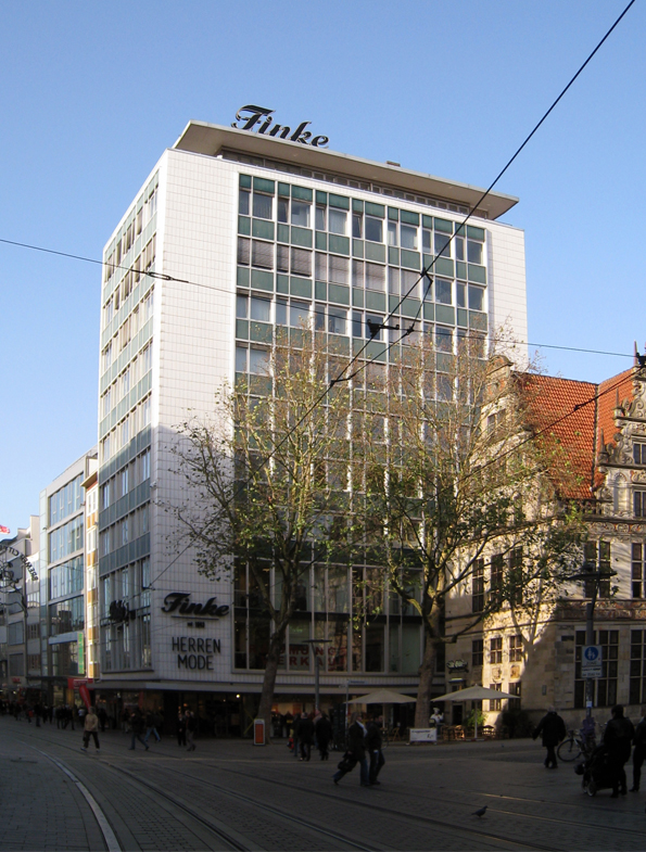 The Finke-Hochhaus in the Hutfilterstraße in Bremen, Germany. Built 1956 by Rudi Richter and Willi Kläner. Next to it on the right the 17th century Gewerbehaus on the Ansgarikirchhof.